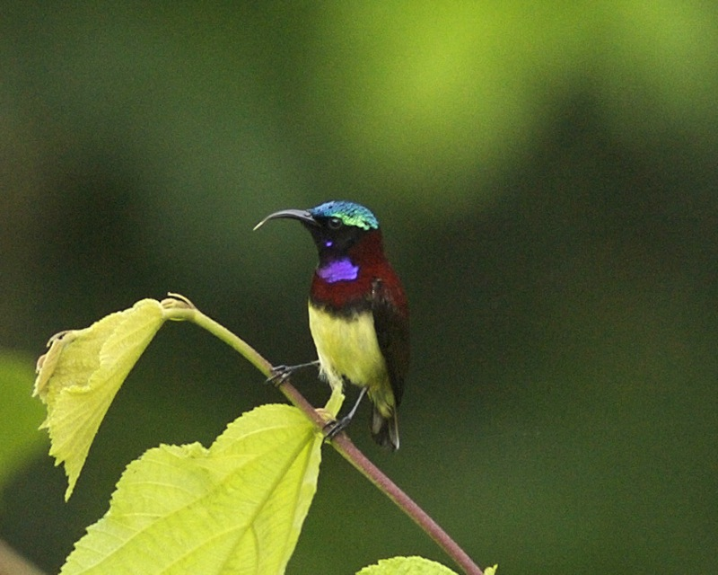 Crimson-backed Sunbird (Leptocoma minima) Male Location: Thattekad, Kerala, India Date: October 9, 2007 Distribution: _Q0S0053